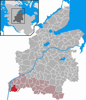 Locator maps of municipalities in Schleswig-Holstein - District Rendsburg-Eckernförde